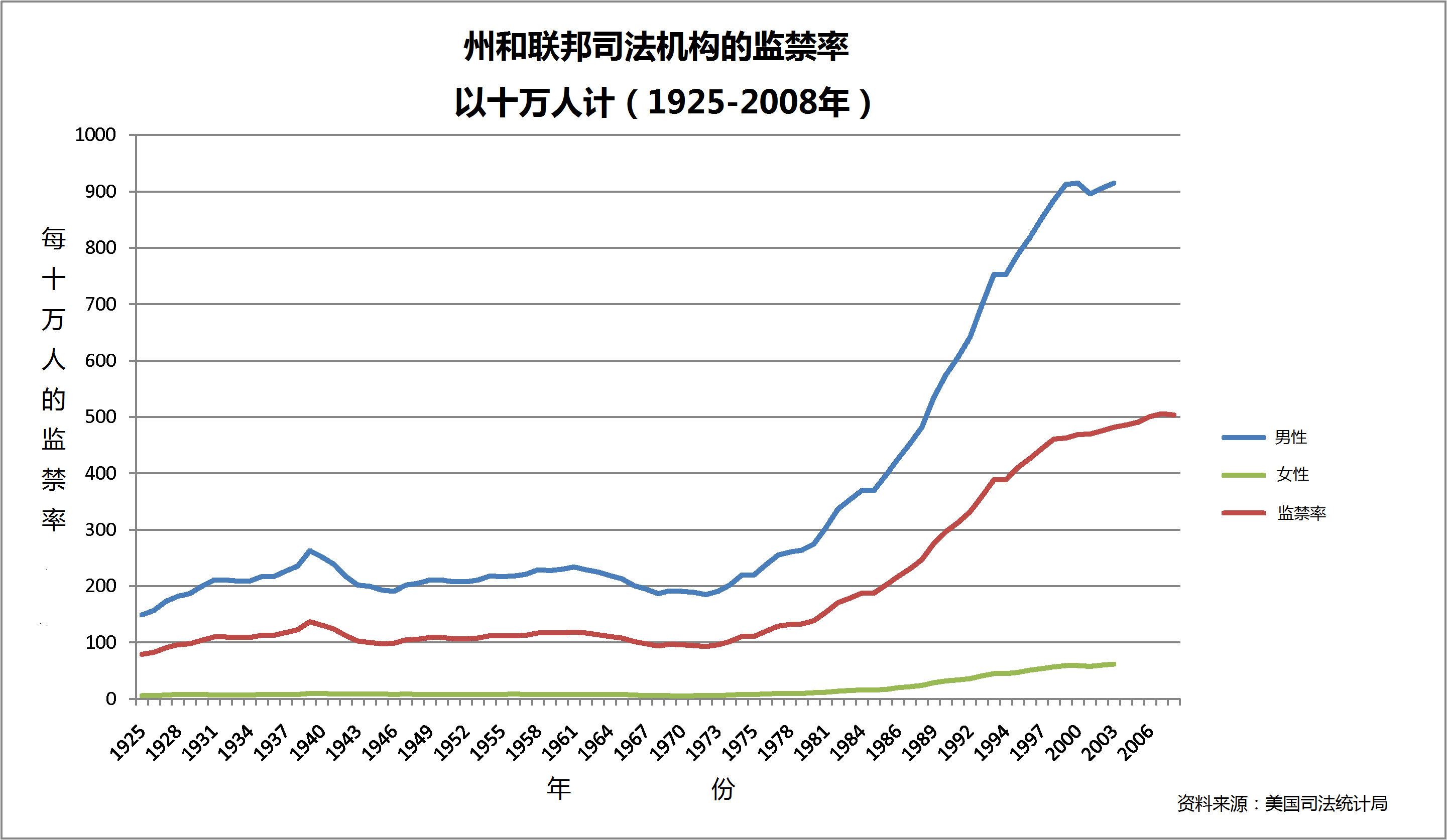 A graph made in excel 2007 showing the incarceration rate per 100,000 population in the United States. It shows the female and male rate, as well as their average. The graph depicts under the rate (per 100,000 resident population in each group) of sentenced prisoners under jurisdiction of State and Federal correctional authorities from 1925 through 2008. It does not include jail inmates. Simplified Chinese edition